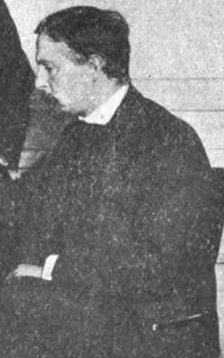 Photo of Abraham Speijer